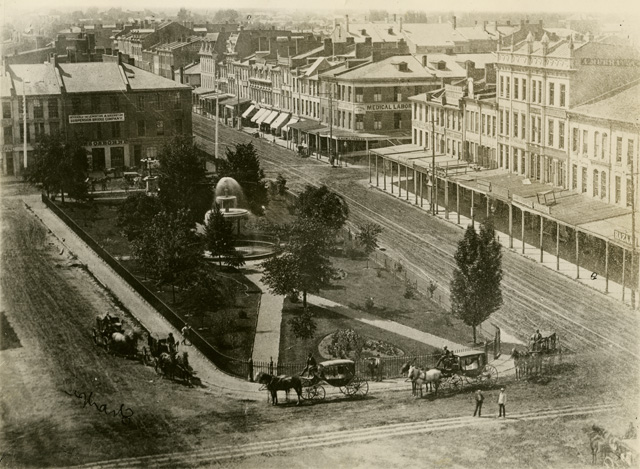 Original Photographs Collection 32022194828097